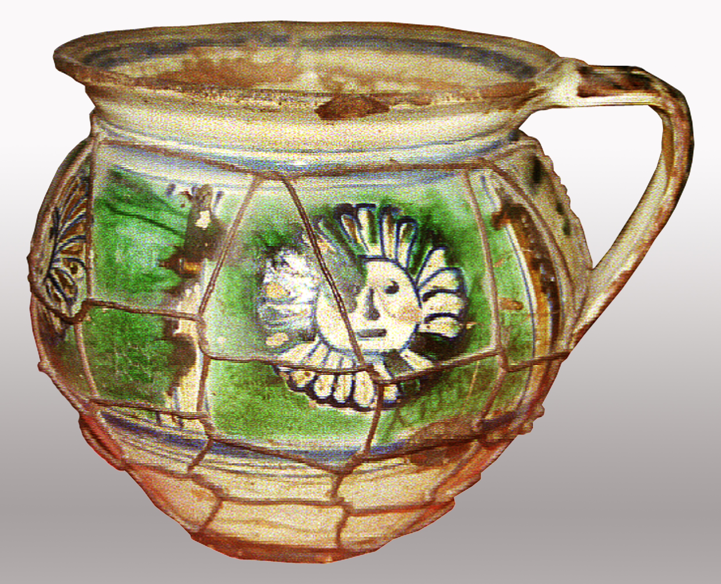 Hungarian pottery from second half of the 19th century